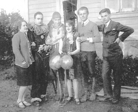 Filming the film "Mustat silmät" (Black Eyes). Identified persons: from second left Flor Martynov, Theodor Tugai and on the right side of camera Valentin Vaala.